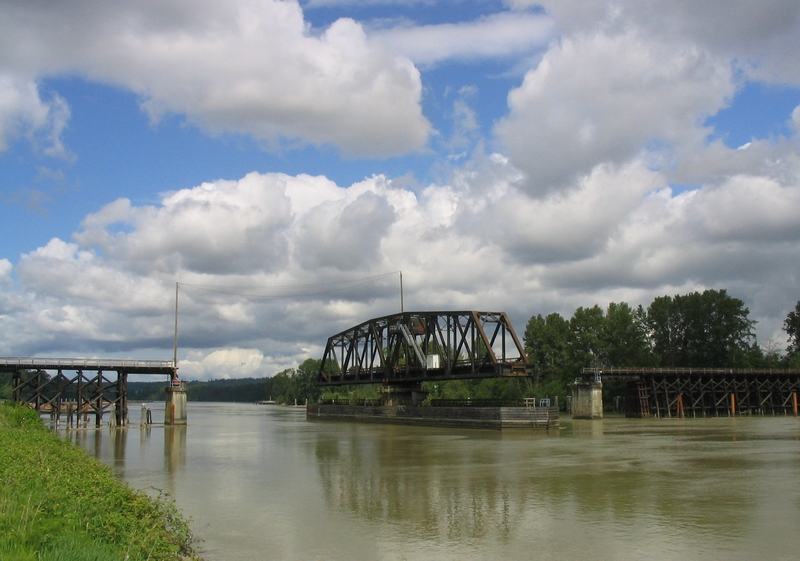 Railway swing bridge